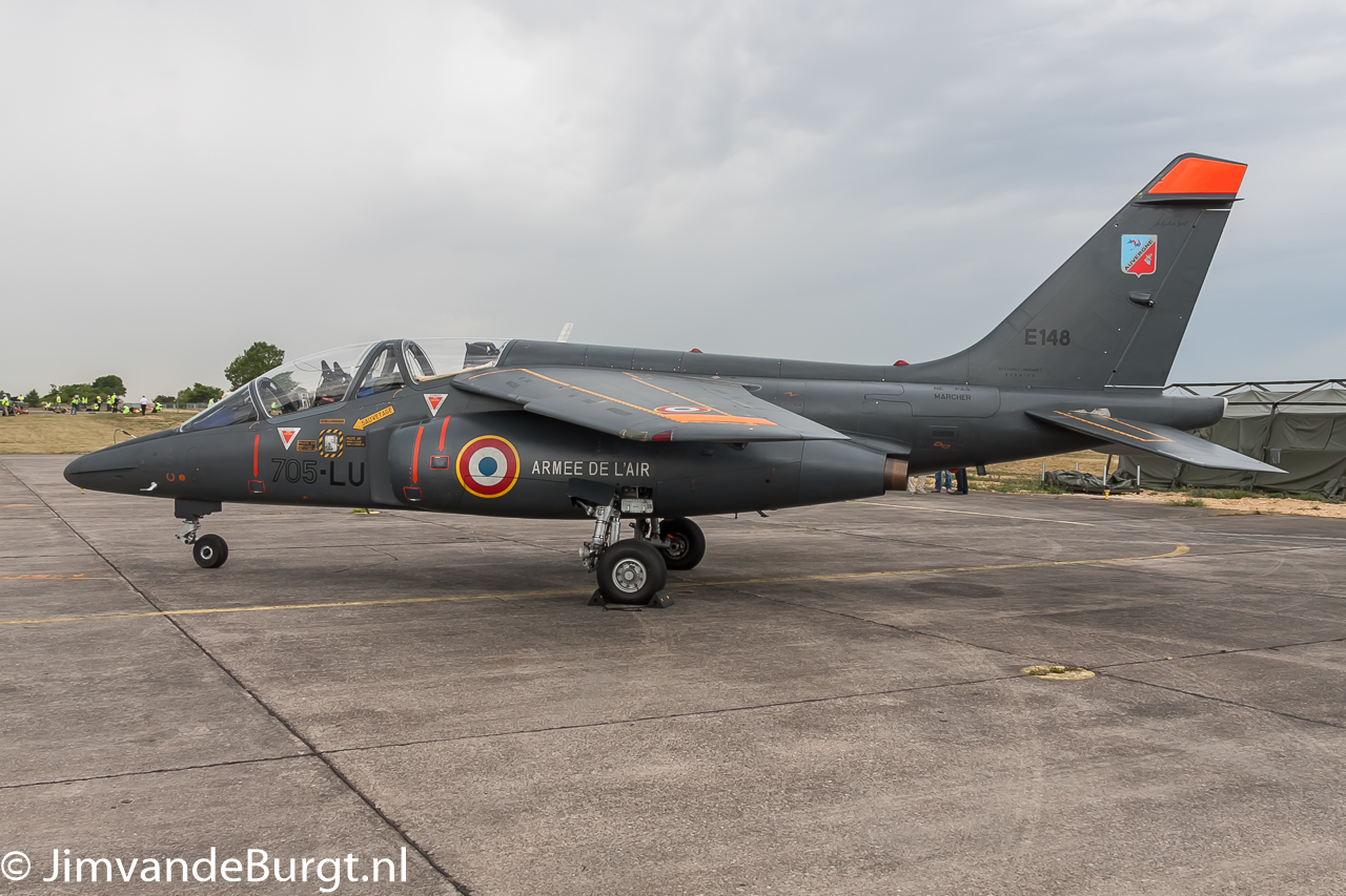 Alpha Jet de l'Escadron d'instruction en vol 3/13 Auvergne, 2014, Meeting de la Base aérienne 133 Nancy-Ochey, France